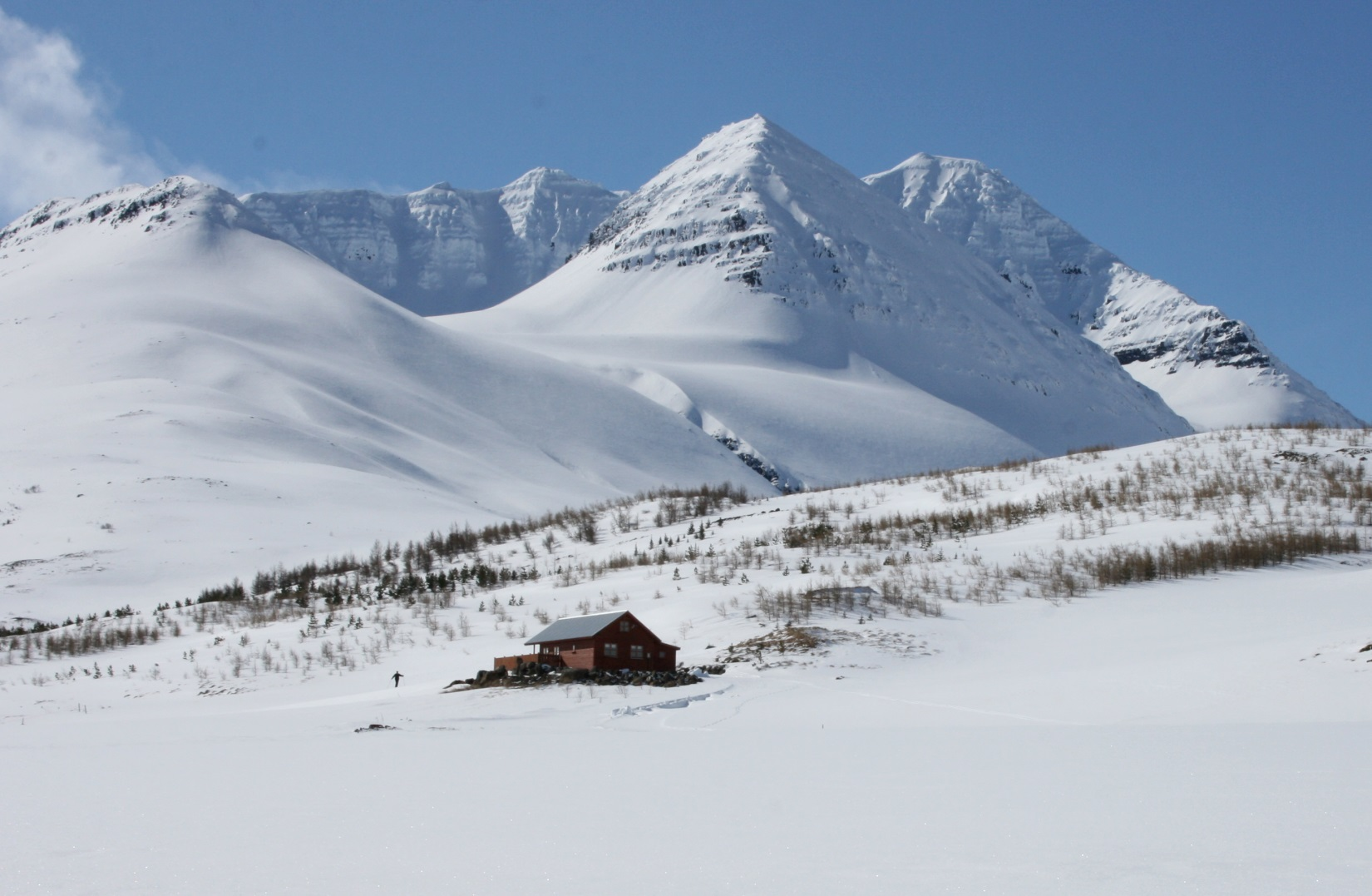 Gloppuhnjúkur mountain, Skíðadalur, North Iceland